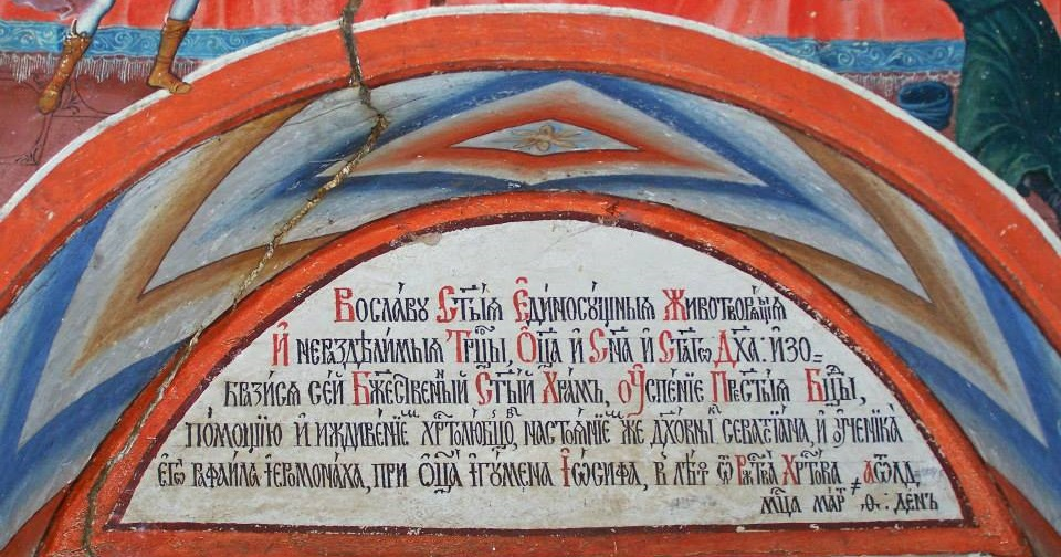 Assumption of Mary Church in Pchelina Inscription